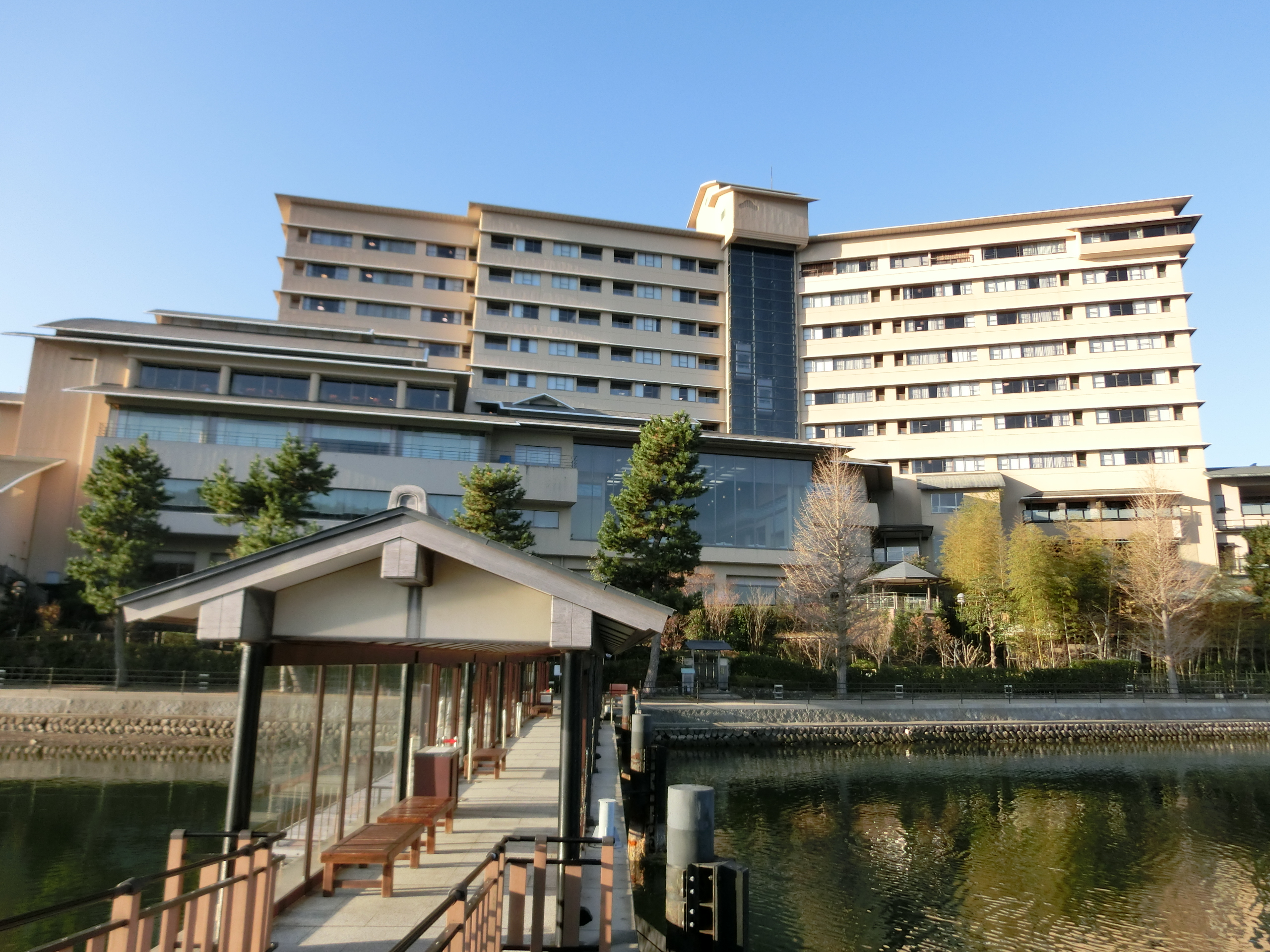 Hotel Kokonoe